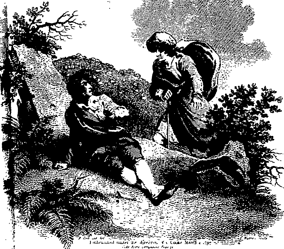 Fleuron from book: The poetical works of Thomas Otway. With the life of the author.